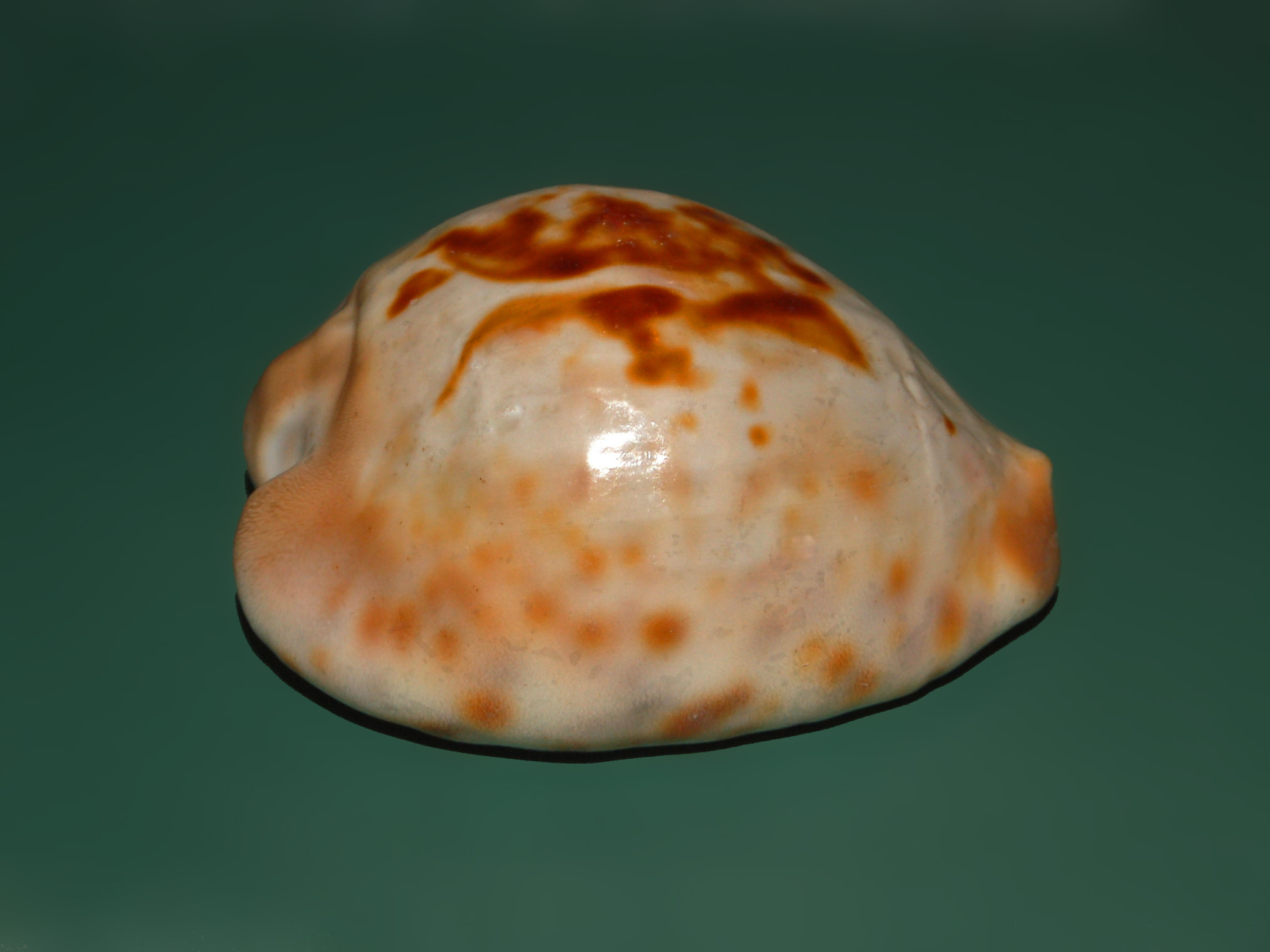 Bernaya teulerei